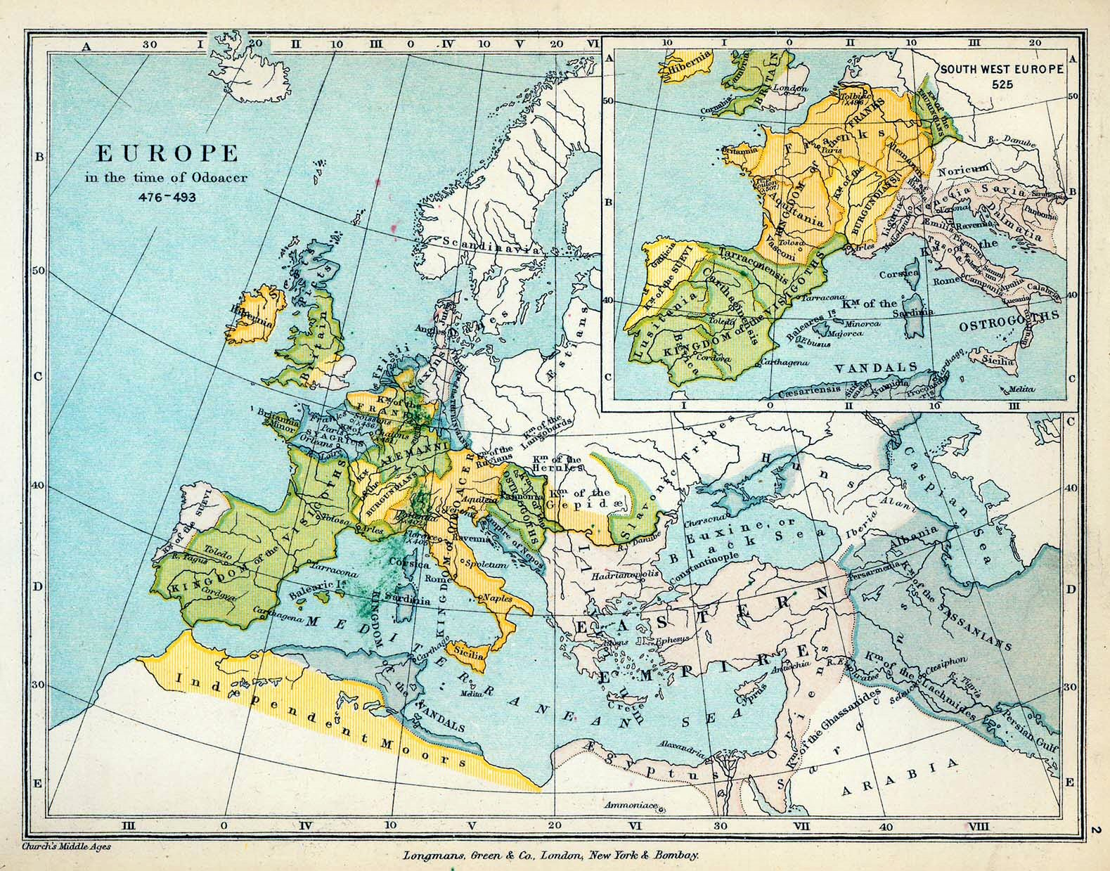 Map of Europe in 476-493.